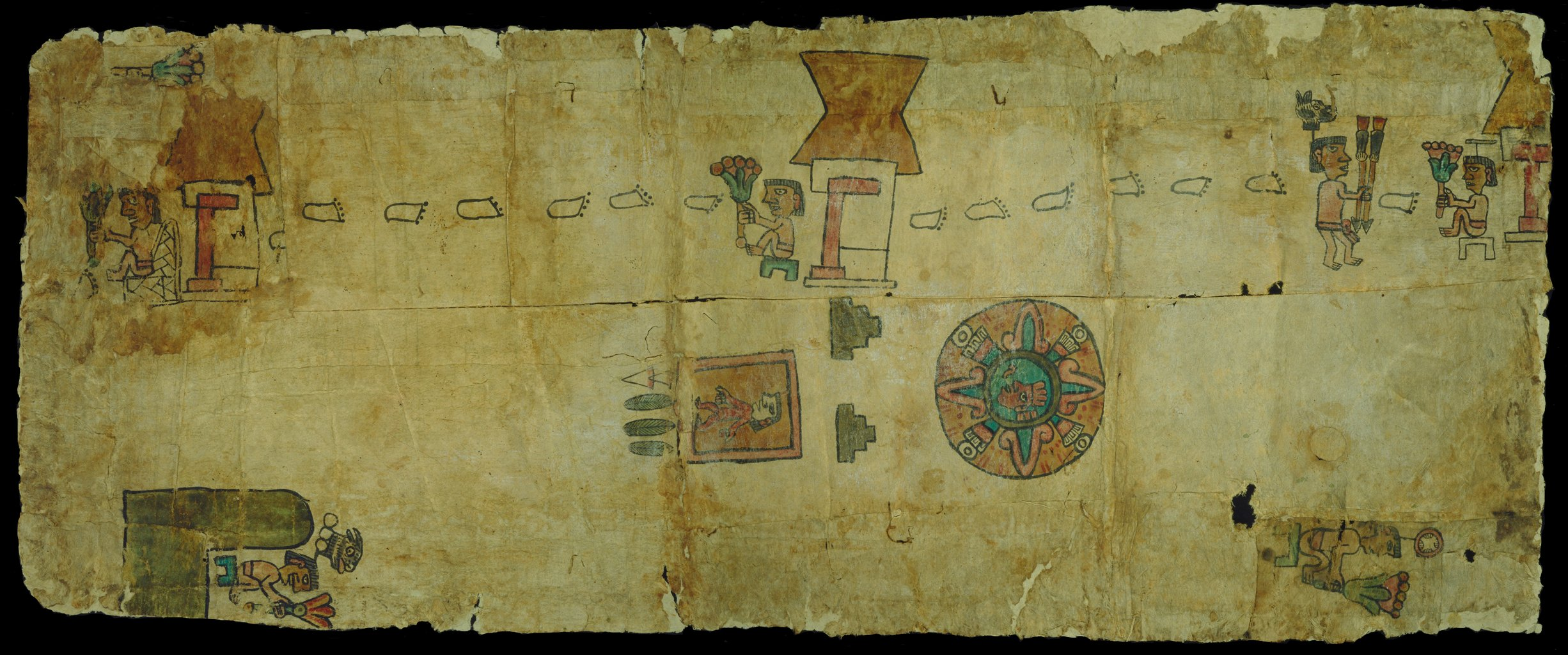 The context in which this codex was created is unknown, but its purpose clearly is to tell the story of the Otomi people of Huamantla. The center of the painting depicts the migration of a group of Otomi from Chiapan, in the present-day state of Mexico, to Huamantla, which is located in present-day Tlaxcala state. The migration, which took place in the Post-Classical period, was undertaken under the protection of the goddess Xochiquétzal and of Otontecuhtli, lord of the Otomi and of fire. The glosses contain the names of the leaders who led the migration. In the depiction of Teotihuacan (location of the large pyramids of the Classical period), the pyramids are shown covered in vegetation, i.e., abandoned. In the 16th century, Otomi culture appears to have been permeated with Nahua material culture, language, and mythology; alongside the pyramids is a representation of the Nahua myth of the birth of the sun. The second pictographic group, added above the first by another artist, uses less space and a smaller scale to show the participation of the Otomi in the conquest of Mexico and the lives of the Otomi under Spanish domination. Codex; Indians of Mexico; Indigenous peoples; Memory of the World; Mesoamerica; Migration; Nahuatl language; Otomi Indians